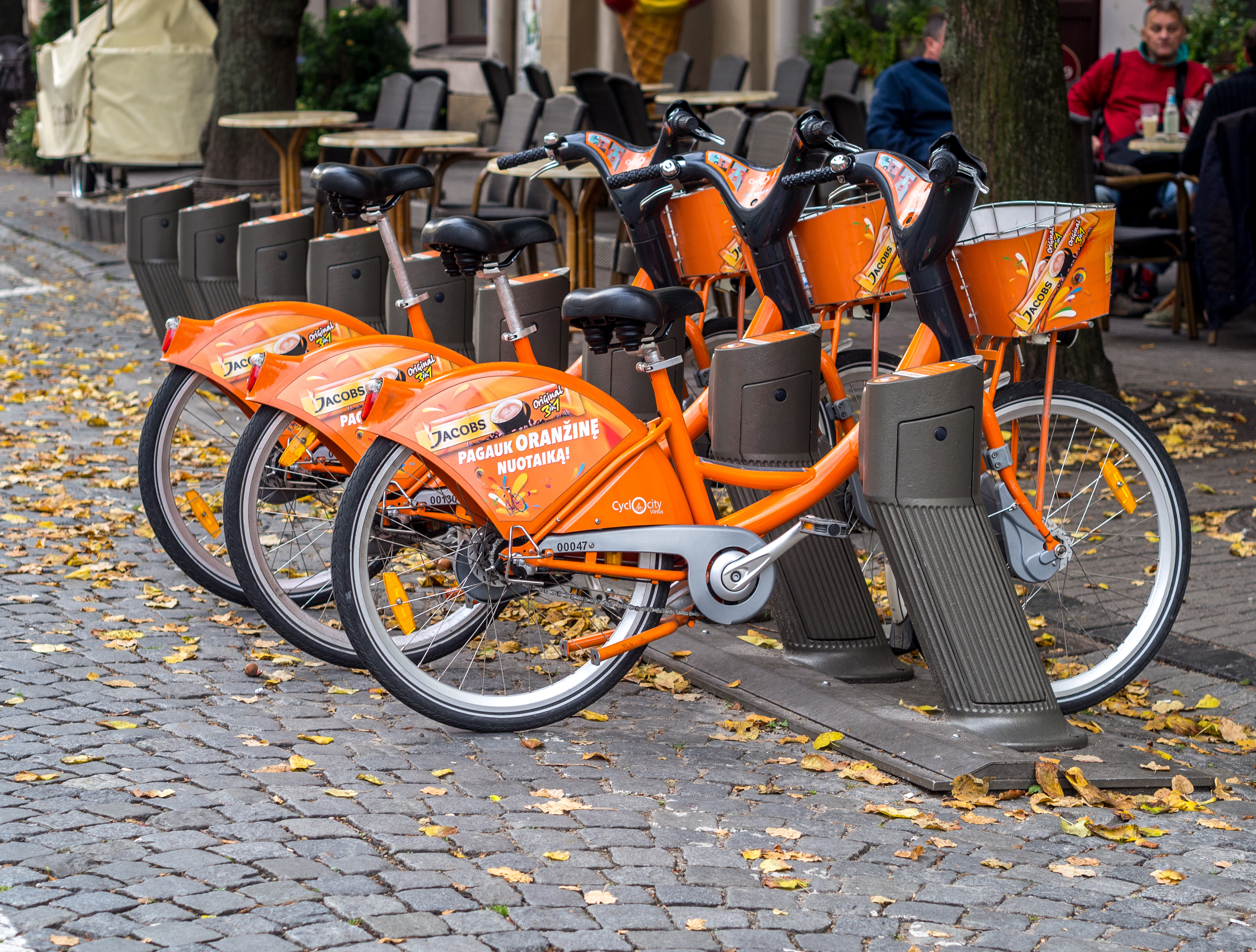 Orange bikes available for anyone to rent in Vilnius, Lithuania.